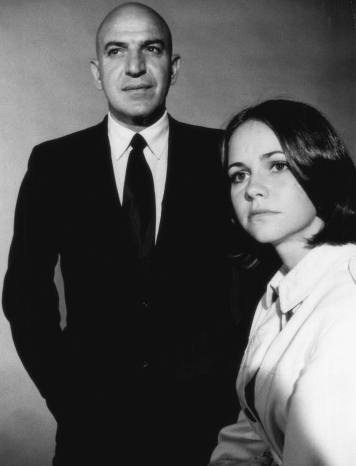 1971 Telly Savalas & Sally Field "Mongo's Back in Town" Press Photo